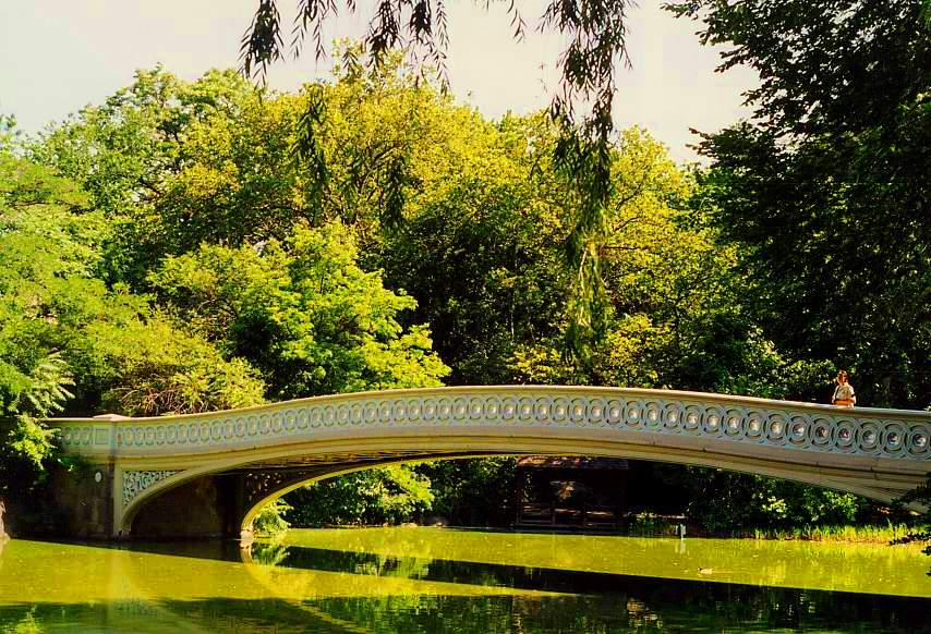 Central Park